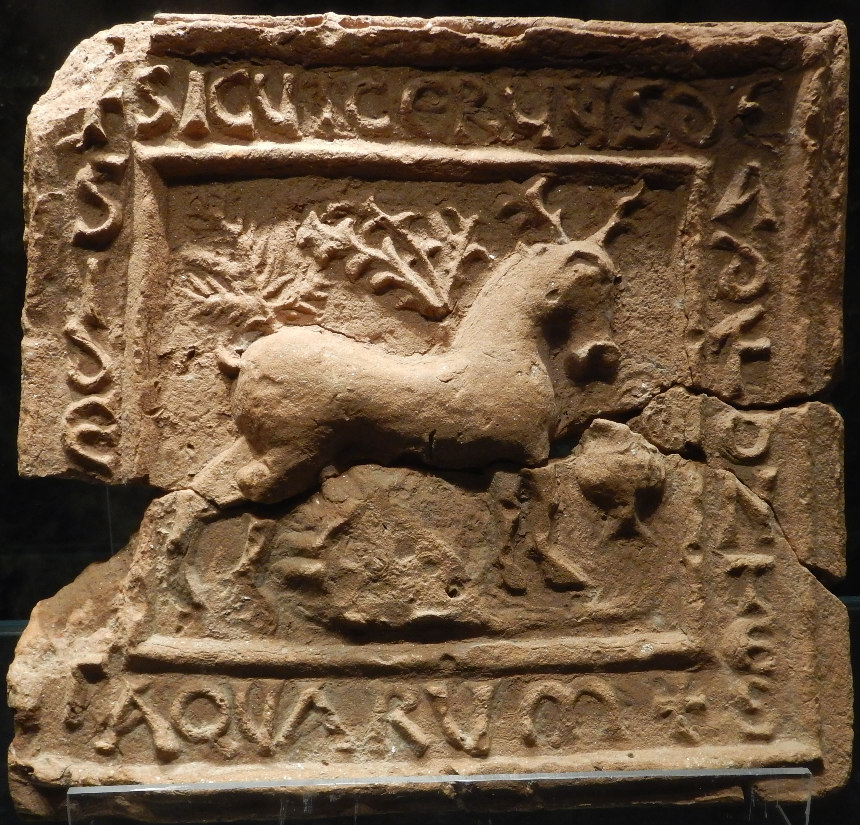 Terracotta icon, 41 Psalm of David, found at Vinicko Kale, Vinica, from 5-6 century